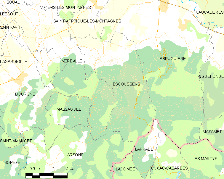 Map of French municipality Escoussens